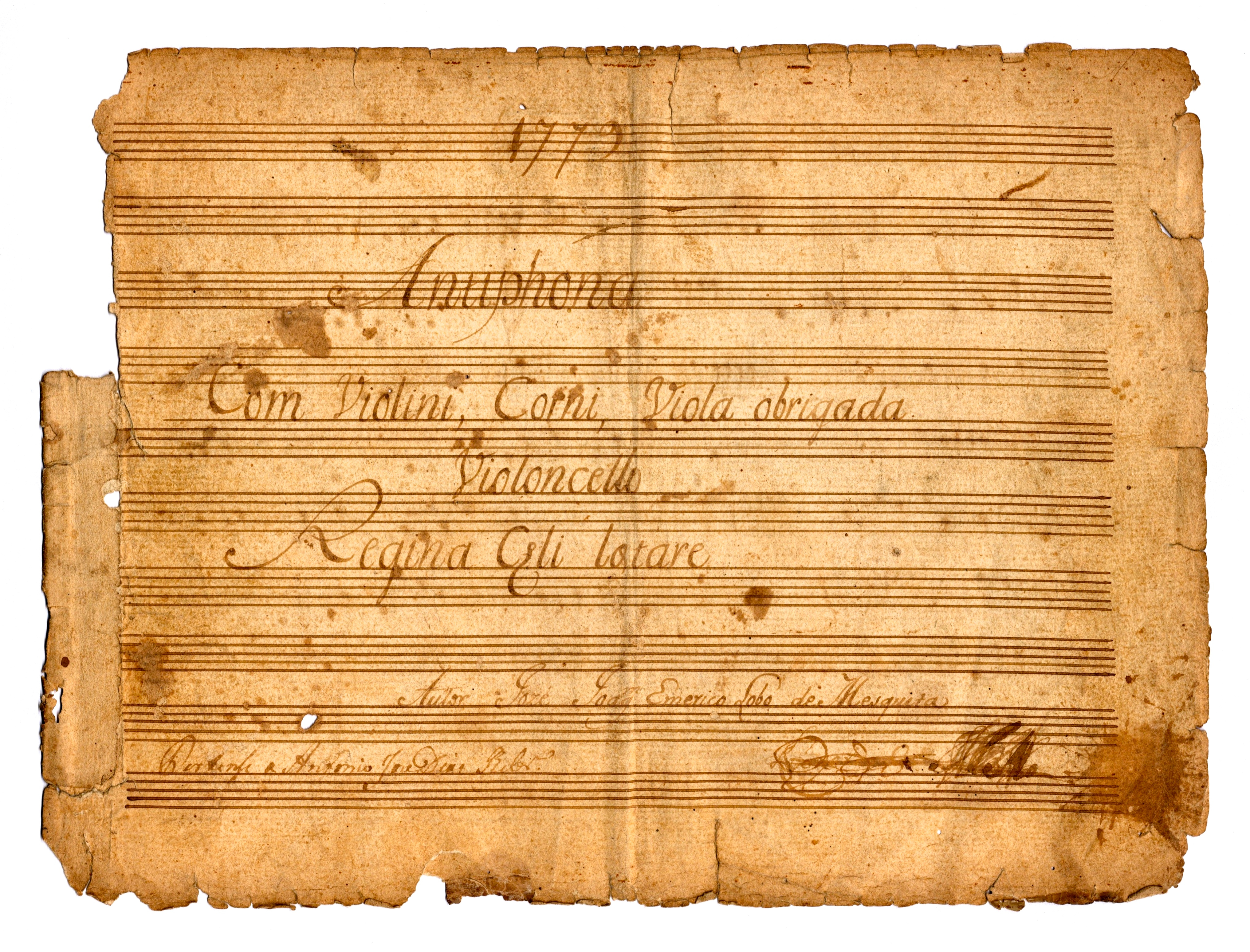 Regina cæli lætare, by José Joaquim Emerico Lobo de Mesquita. Manuscript of the Mariana Music Museum.